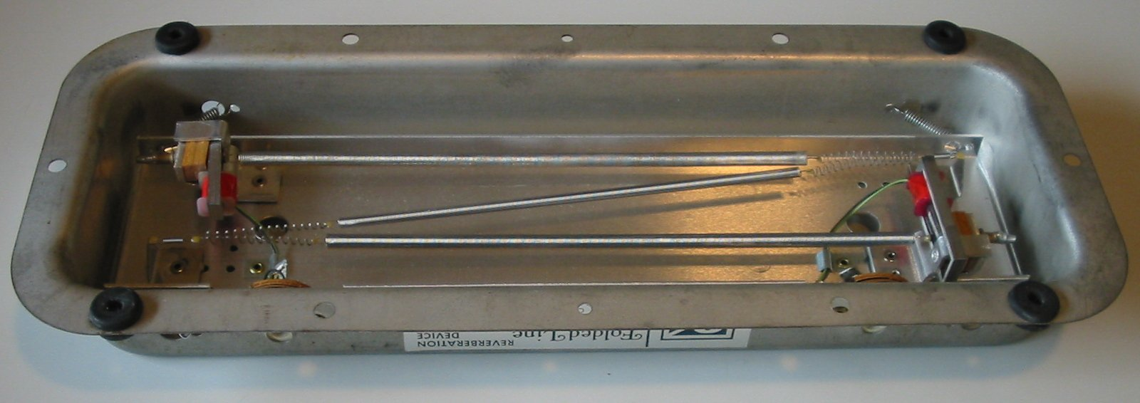 O. C. Electronics, inc. Folded Line reverberation device Manufactured by beautiful girls in Milton, Wis. under controlled atmosphere conditions. U.S. pat. 3,363,202 / Canadian pat. 825,330 Type 60